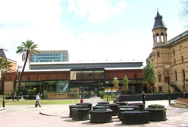 SA Museum, Adelaide, South Australia